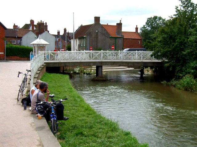 The River Bain, Horncastle Looking downstream towards Conging Street. The river supports plenty of chub and roach.